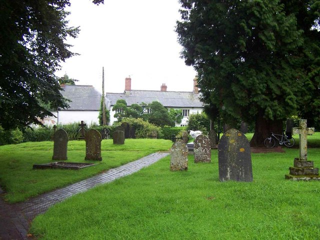 Lydeard St Lawrence Churchyard